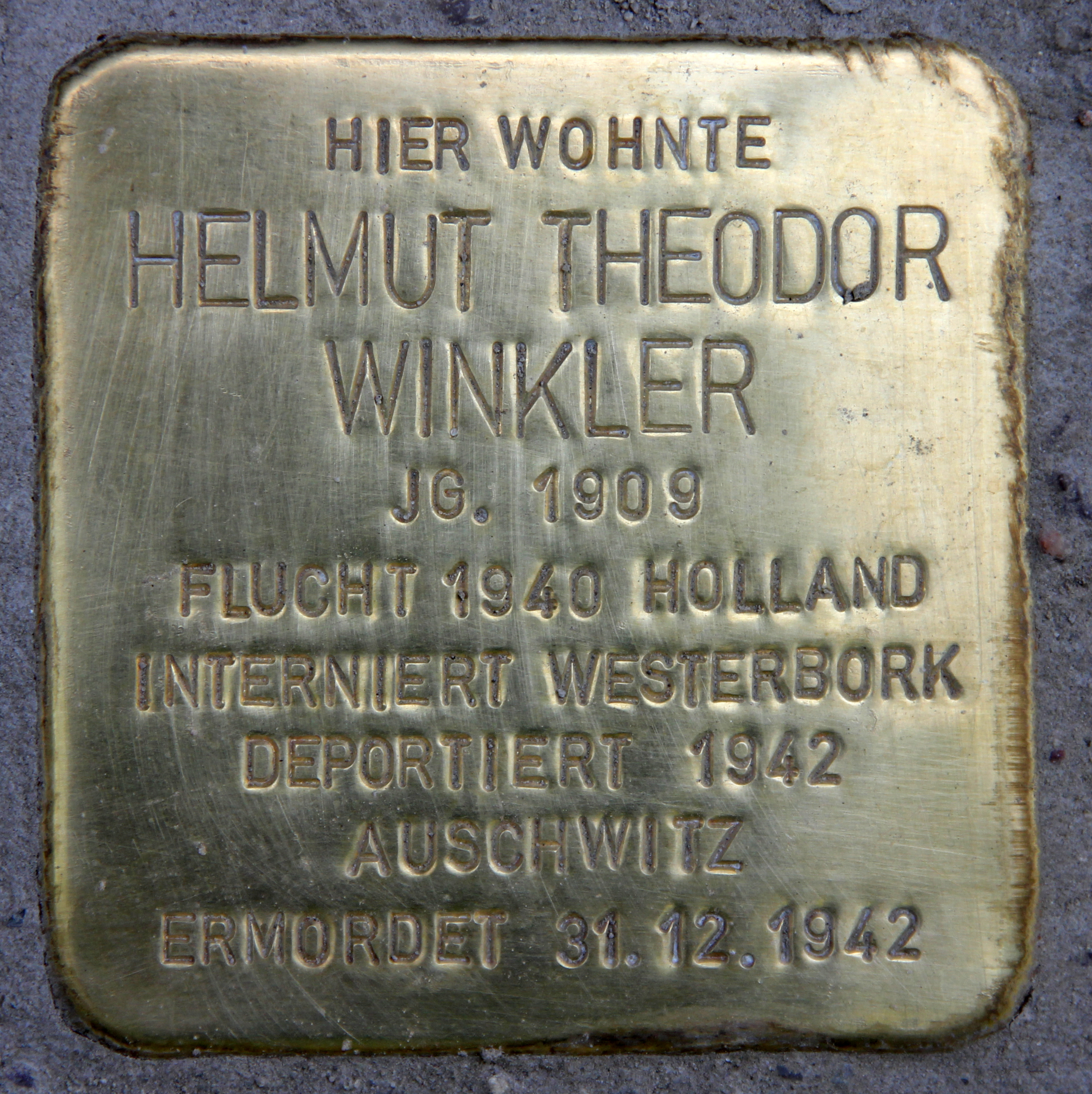 "Stolperstein" (stumbling block), Helmut Theodor Winkler, Nikolsburger Platz 1, Berlin-Wilmersdorf, Germany